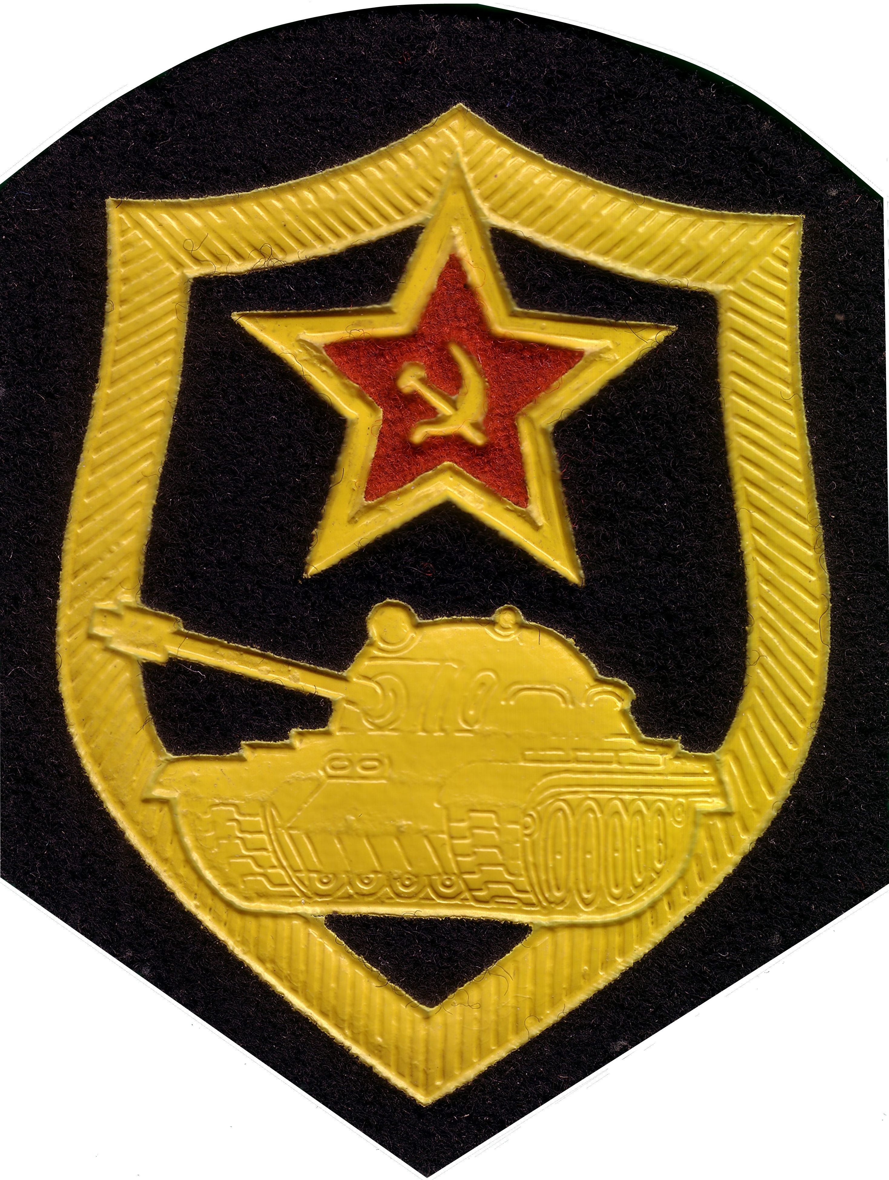 Emblem of the soviet armed forces 1960 to 1991, Soviet Army (military branches, service branches or armed services), sleeve badge (appliquéd) right hand upper arm (dress uniform/ parade uniform) to be used for the ranks OR1 to 8, and WO1 to 2, here: – “Armored corps”, design 1985.